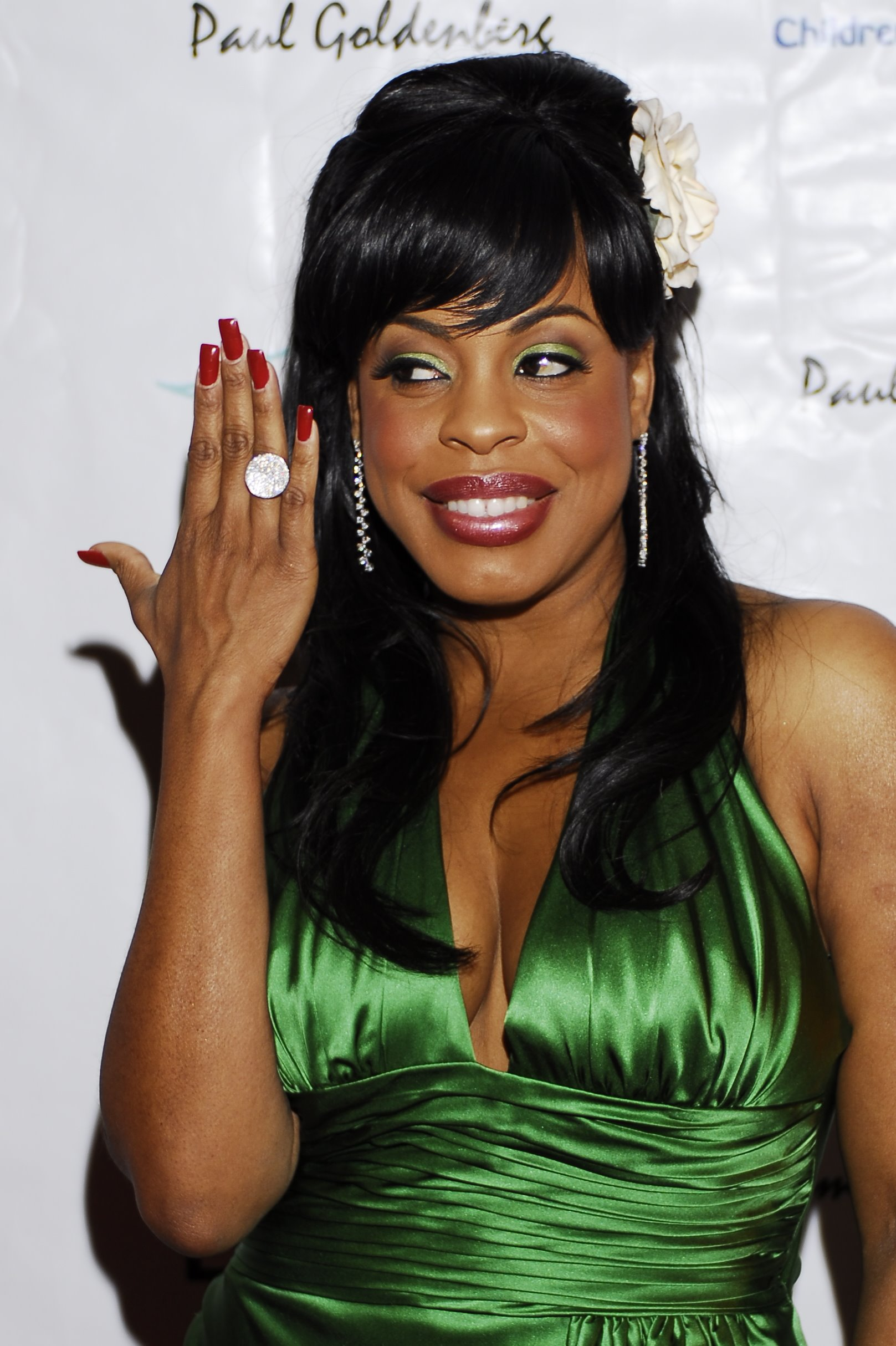 Niecy Nash at the 79th Annual Academy Awards Children Uniting Nations/Billboard afterparty.